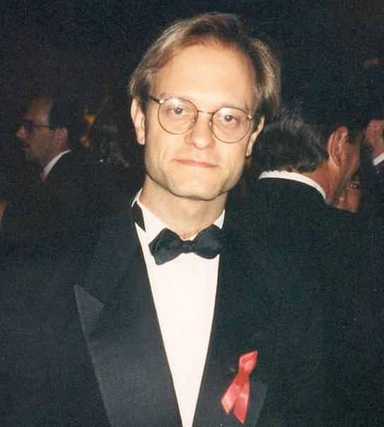 Cropped version of a photo taken at the 47th Emmy Awards, 9/11/94 - Governor's Ball - Permission granted to copy, publish or post but please credit "photo by Alan Light" if you can